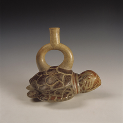 Moche Sea Turtle. 200 A.D. Larco Museum Collection. Lima, Peru. Free Use.